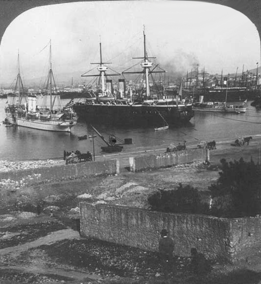 The port of Piraeus, 1907